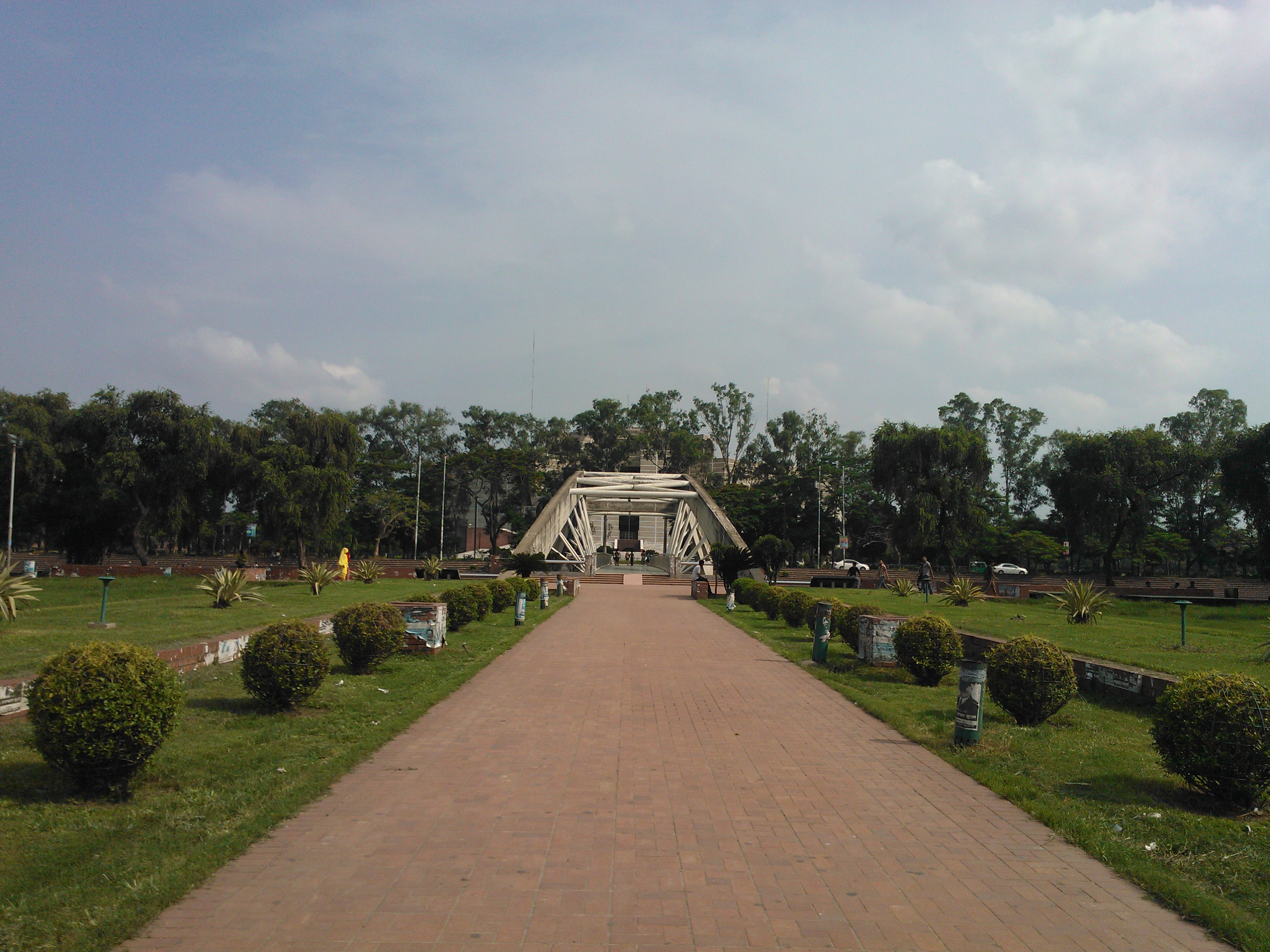 A bridge which runs over the Crescent Lake at Chandrima Uddan, Dhaka, Bangladesh.